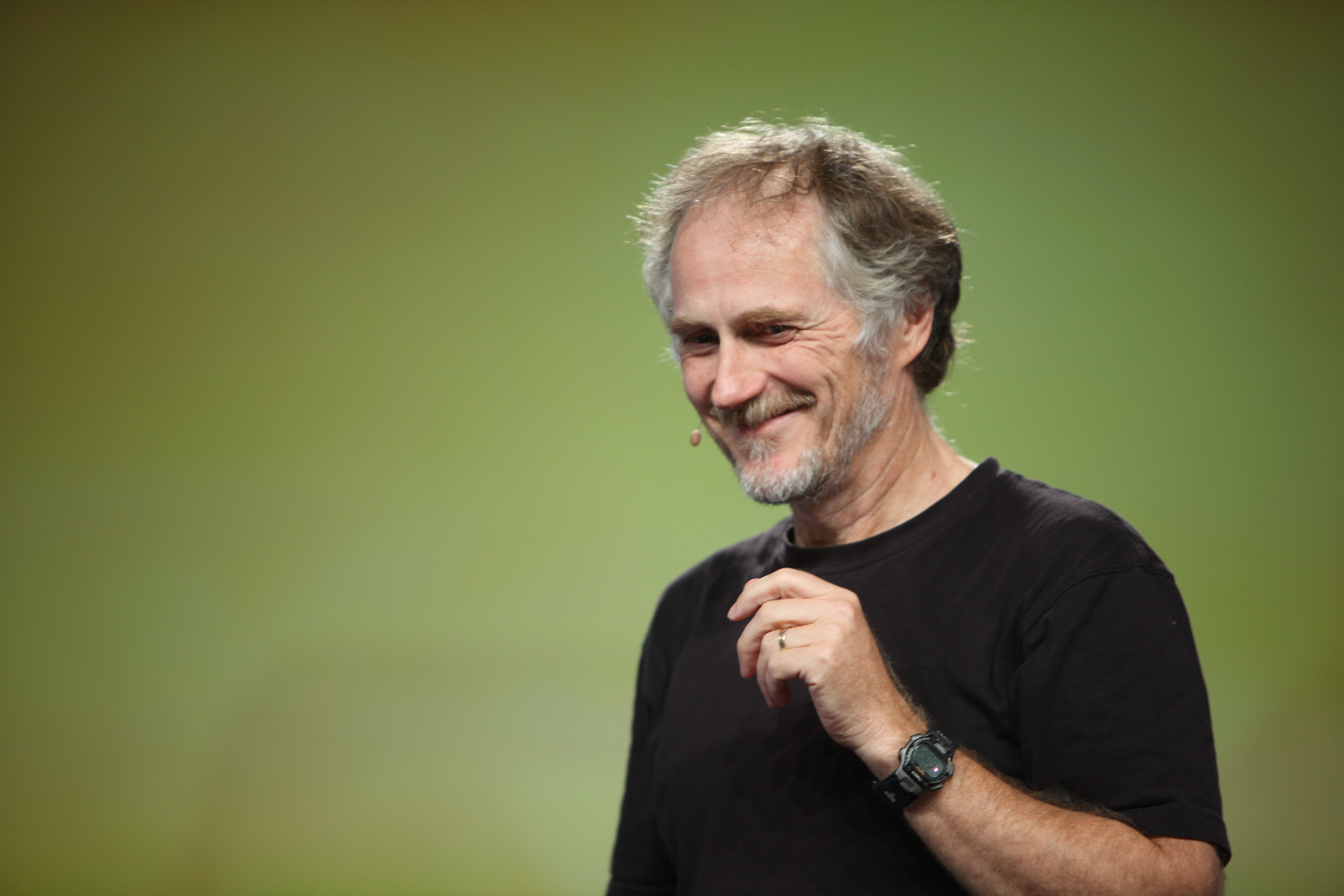 Tim O'Reilly at the PayPal X Innovate in november 2009.